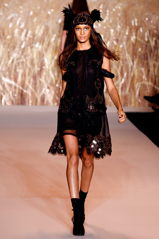 Joan Smalls in a black dress with a black headpiece walks the runway at Anna Sui SS 2011 in New York City.